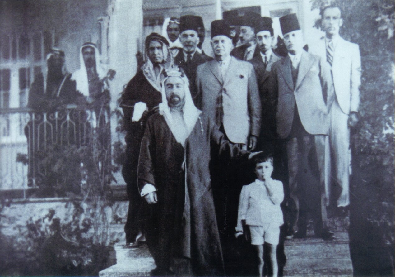 People of Israel